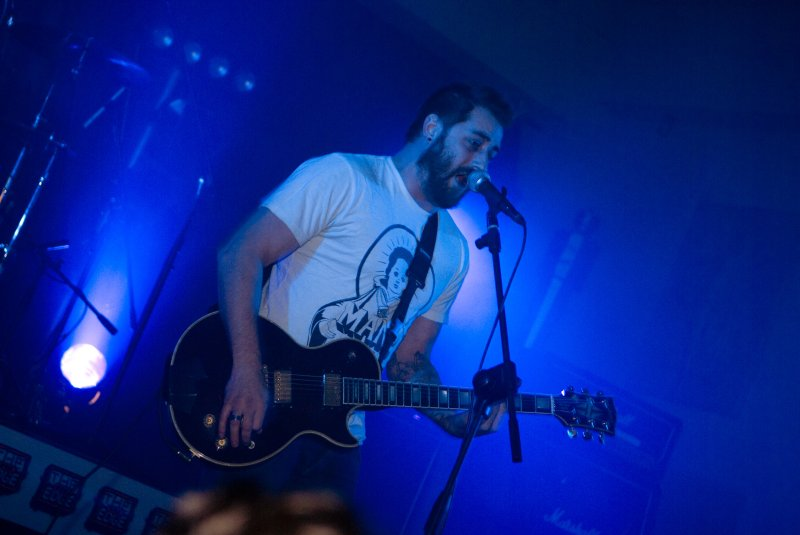 Elemeno P performing at the Civic in Christchurch on 11 July 2008.